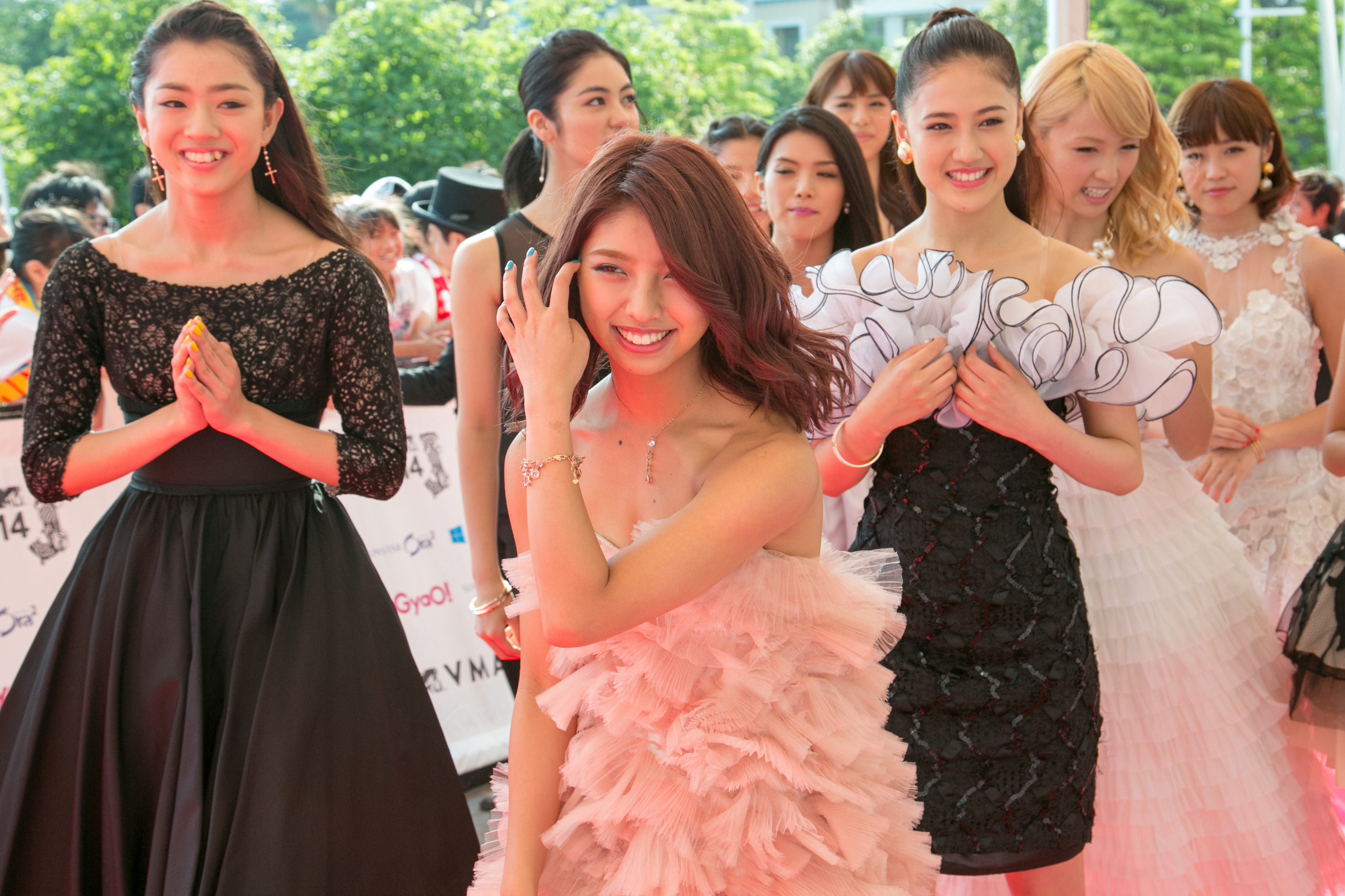 E-Girls at the 2014 MTV Video Music Awards Japan.